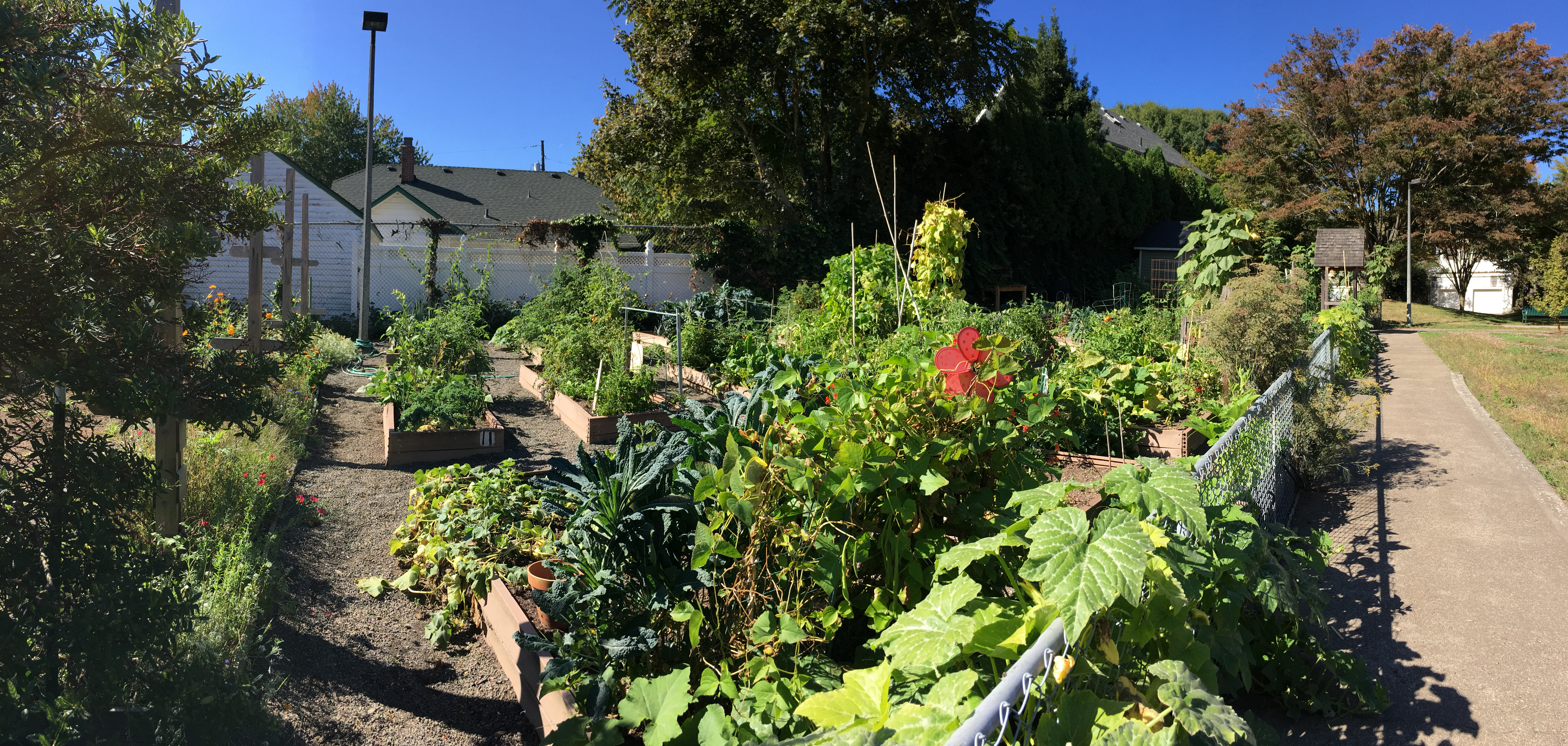 The school garden at Irvington Elementary School, Portland, Oregon, United States.